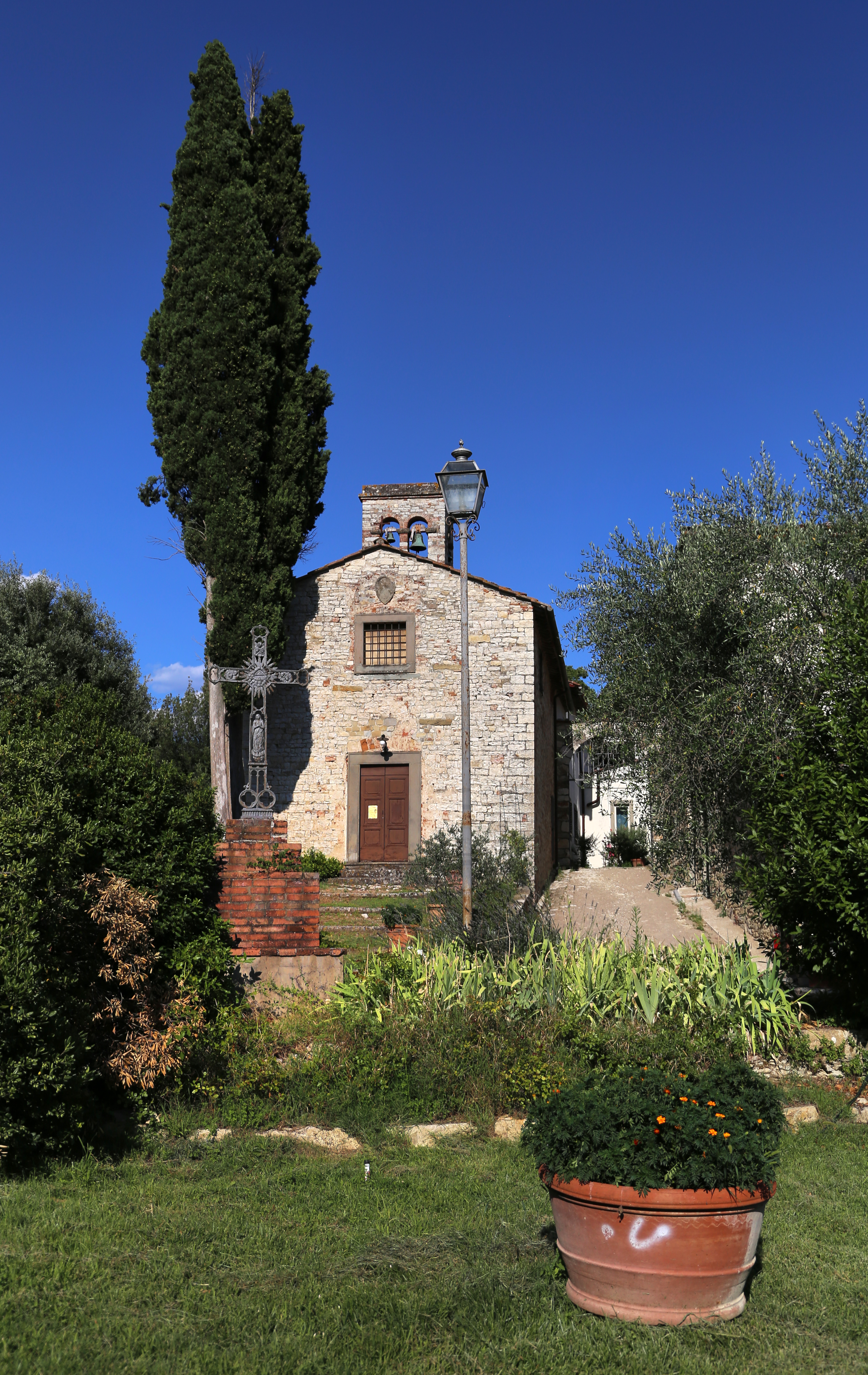 Villa of Castiglionchio